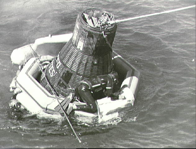 A Navy frogman astride Mercury-Atlas 8 caspule flotation collar to secure tow line for recovery by U.S.S. Kearsarge.